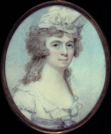 Benjamin Trott's portrait of Anne Hume "Nancy" Shippen